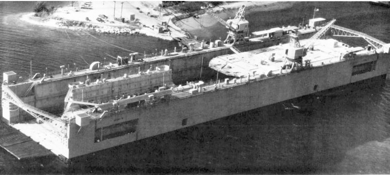 Richland (AFDM-8), date and place unknown. US Navy photo from "All Hands" magazine, June 1979.